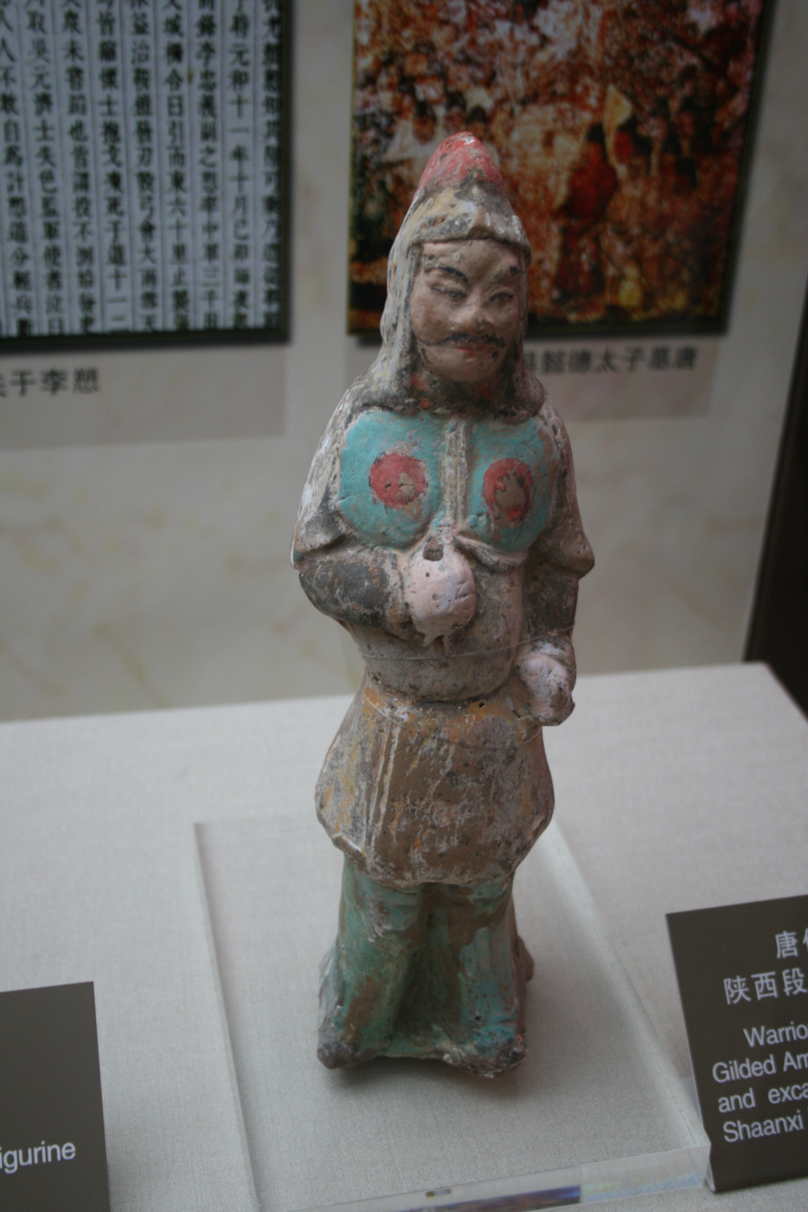 Tang Tomb Figure